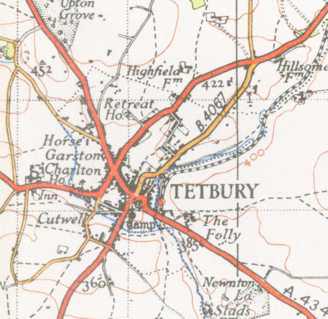 Map of tetbury from 1946. Scale 1 inch to the mile 600DPI Sheet 156